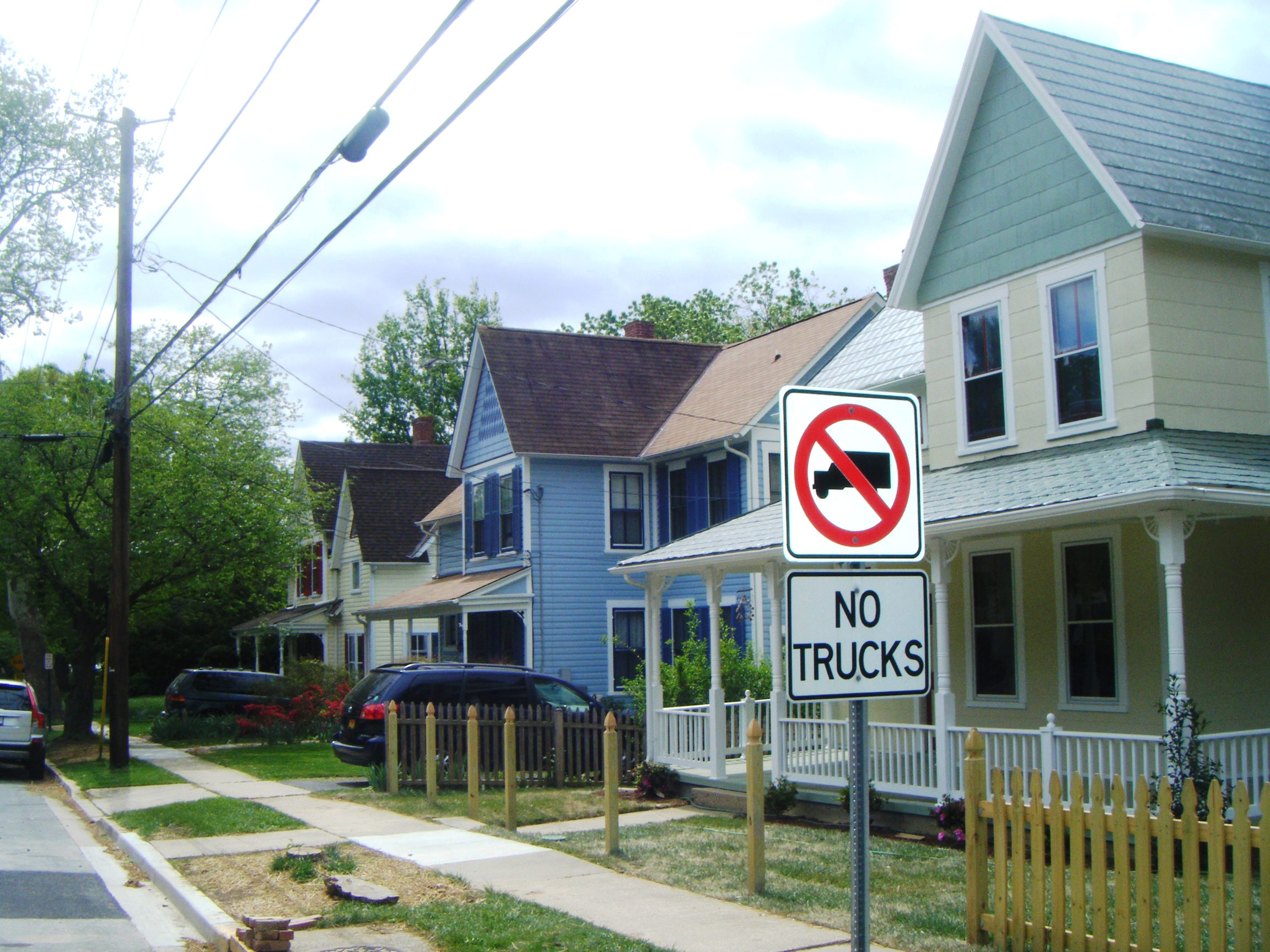 Looking down Armory Avenue in Kensington, Maryland